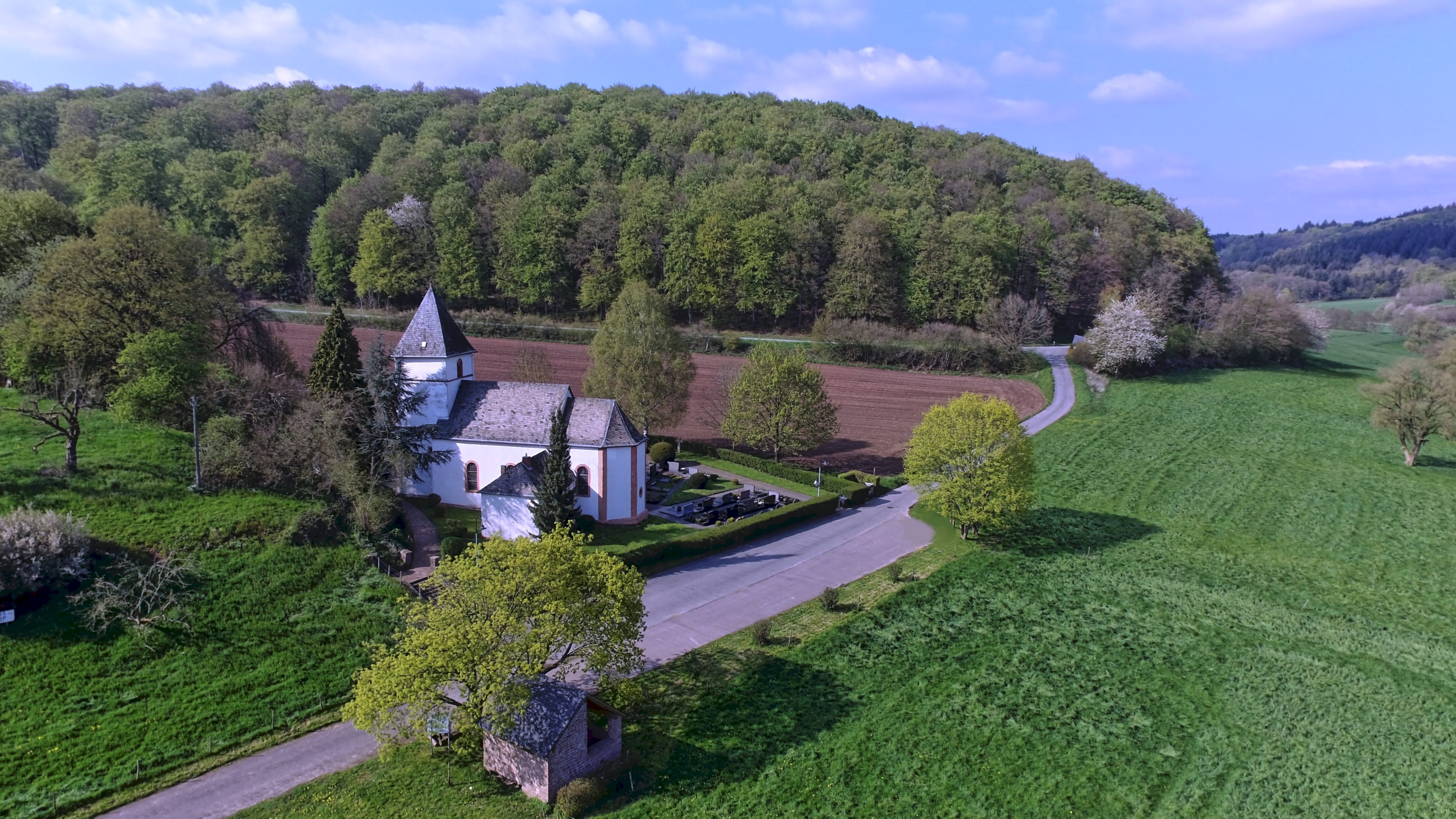 St. James church in Fisch (Saargau, Rhineland-Paltinate, Germany). Parish church of the former now exinct village Rehlingen.